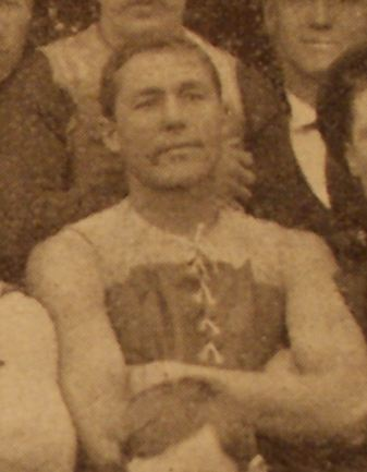 Photo of Bill Collins in the Punch newspaper on 24 August 1899.